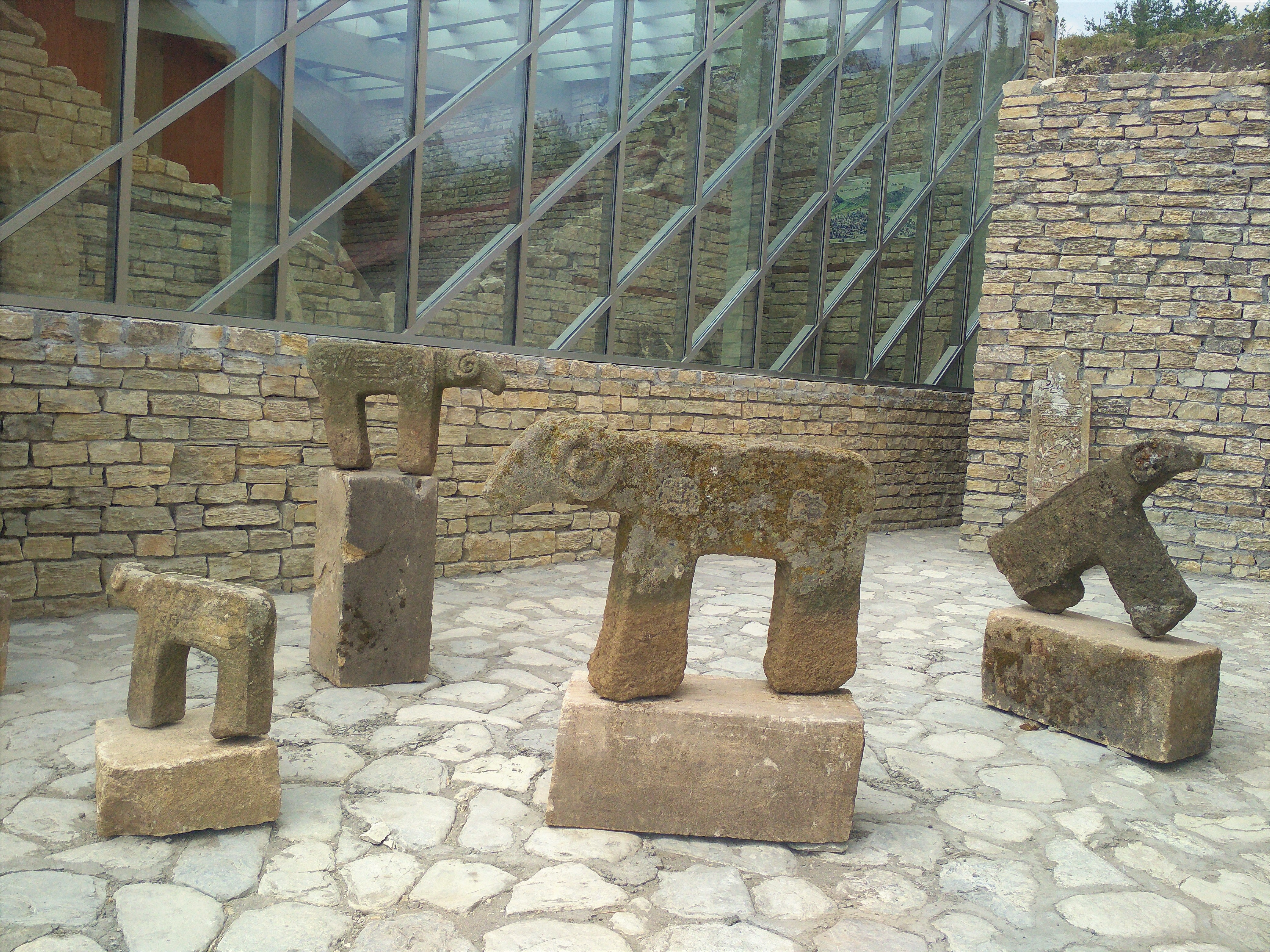 Demirchi Archaeological Museum constructed in Shamakhy district following the Heydar Aliyev Foundation’s initiative.